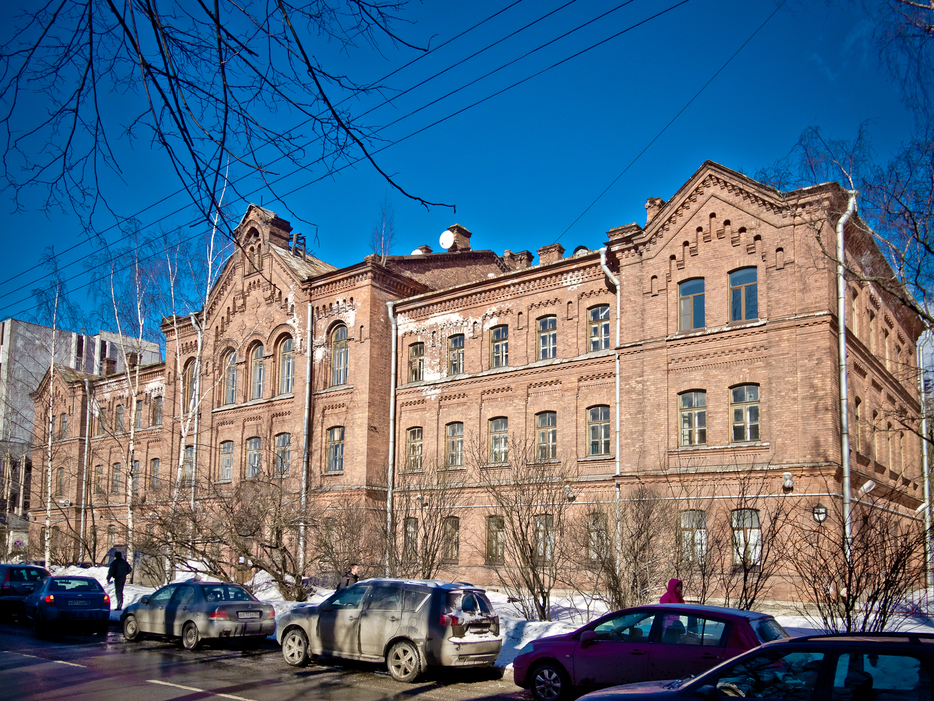 Professora Popova street 37b, Saint-Petesburg, Russia